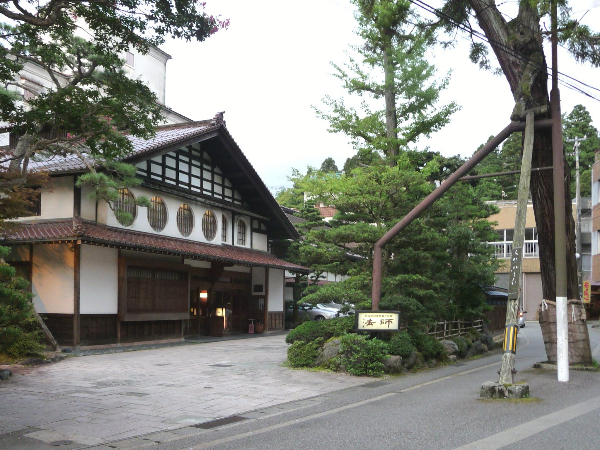 Hoshi Ryokan